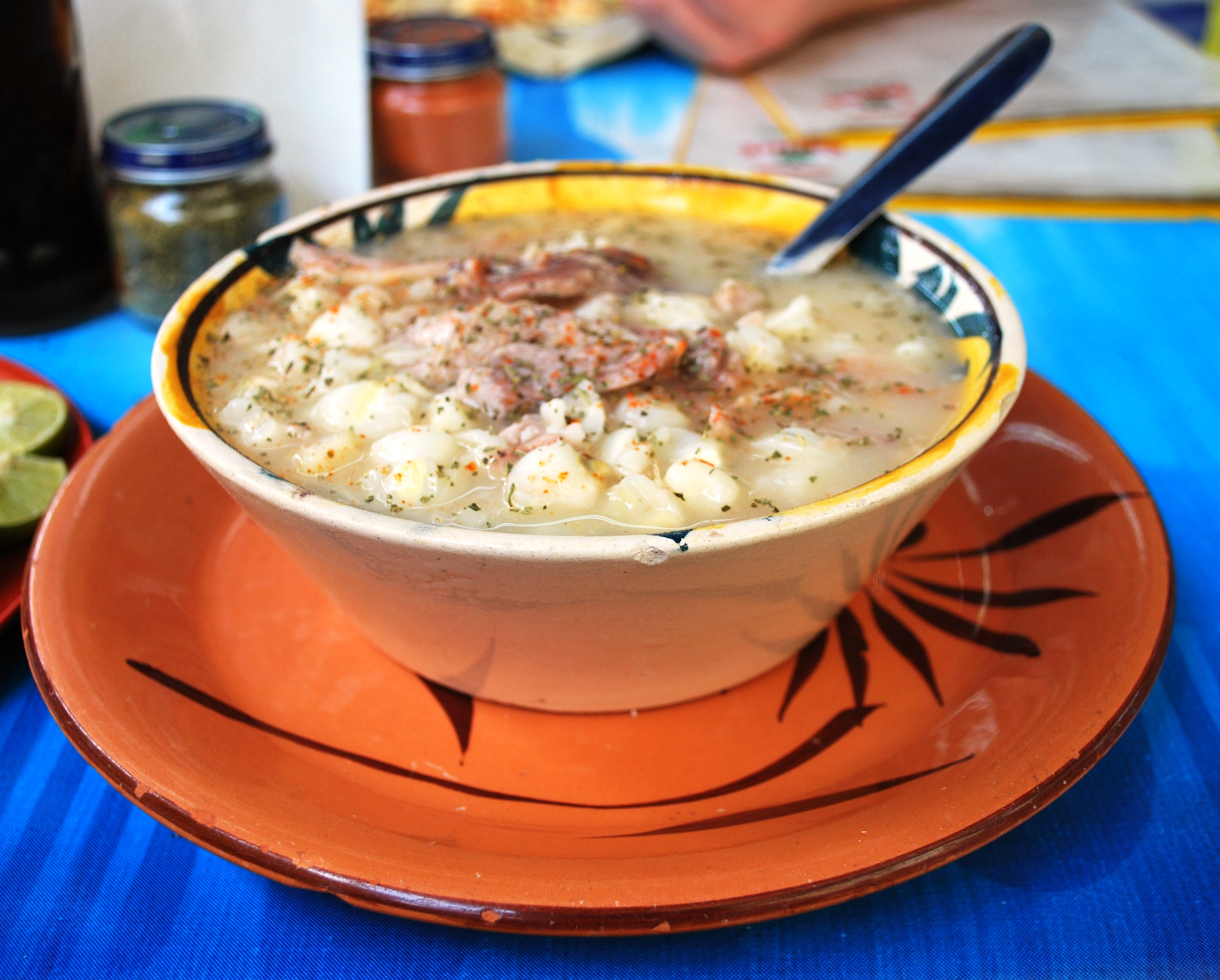 White pozole (one of the variations of pozole) served at a restaurant in Mexico City, sprinkled with chili powder and oregano